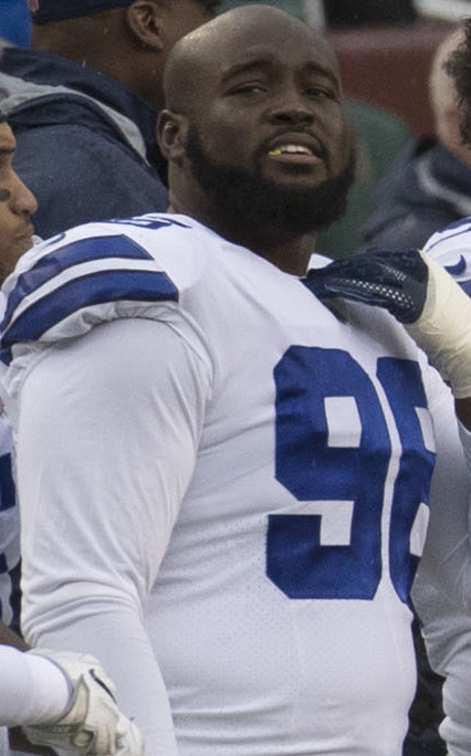 Cowboys at Redskins 10/29/17